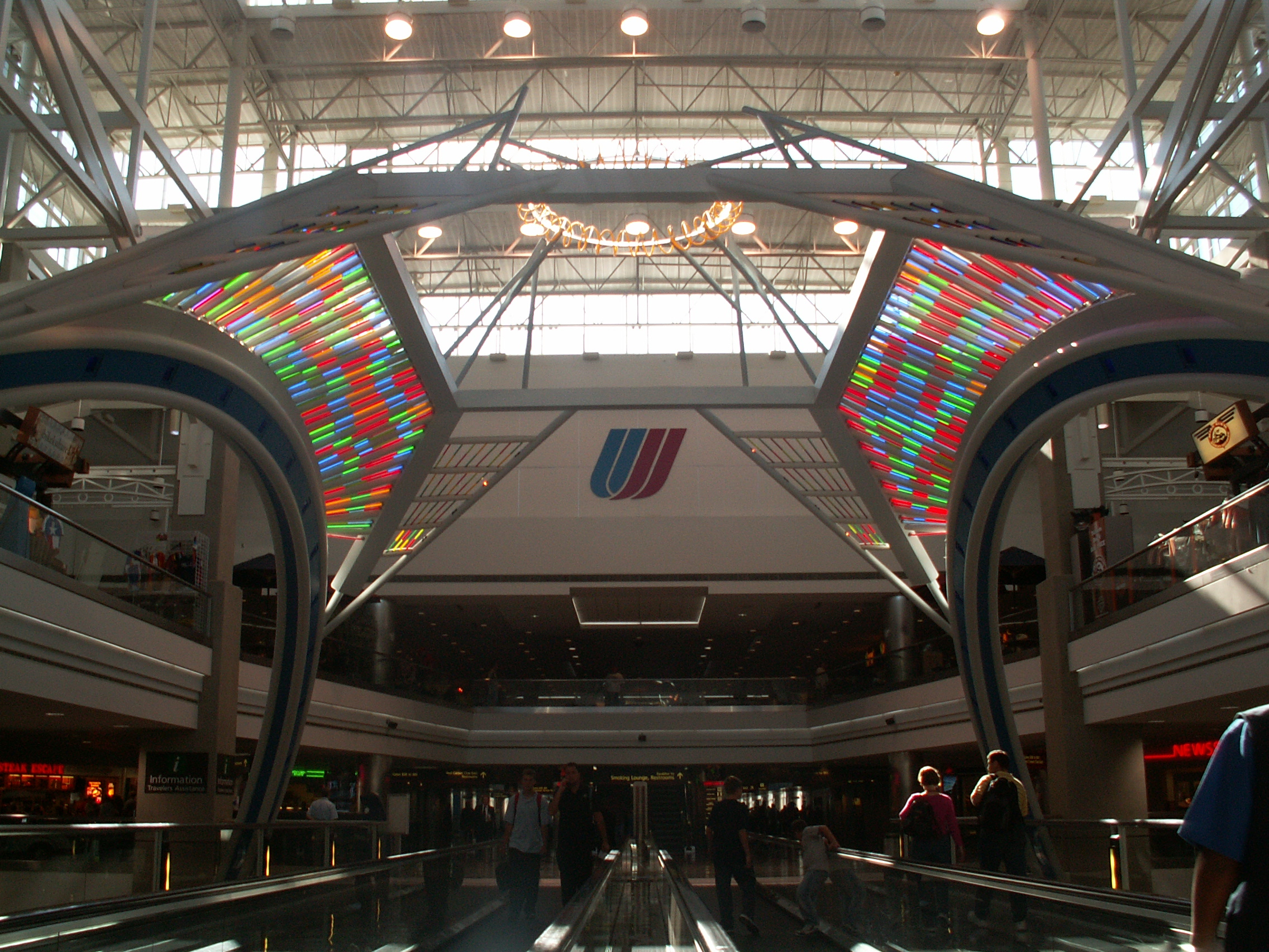 The entrance to Concourse B , Denver International